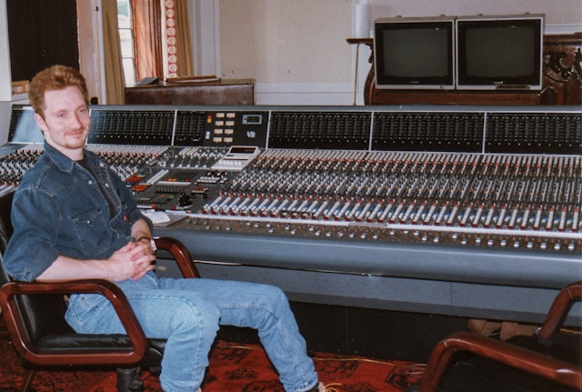 Onboars Pink Floyd's David Gilmore's boat studio Circa. 1996.